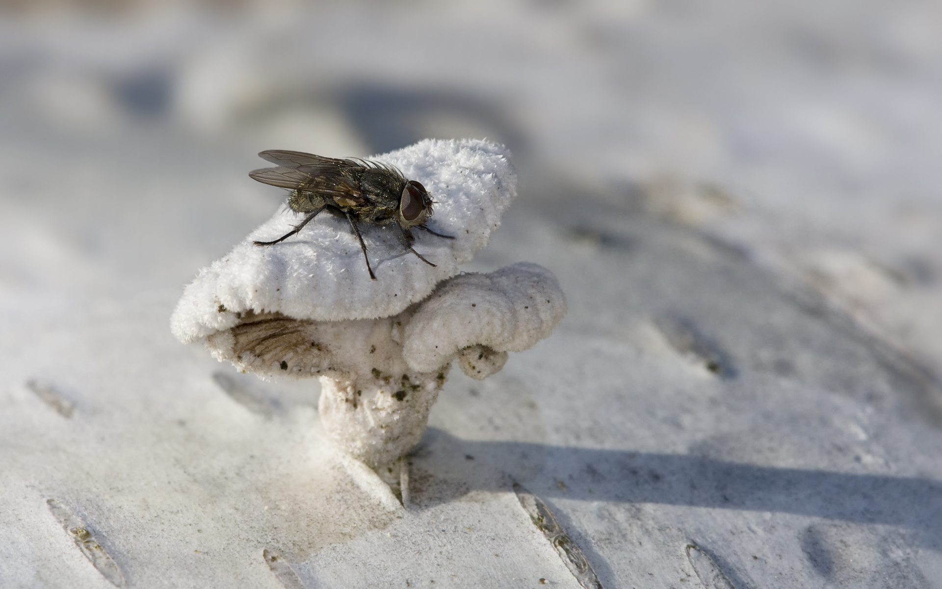 Schizophyllum commune is the world's most widely distributed mushroom, occurring on every continent except Antarctica. The gills, which produce basidiospores on their surface split when the mushroom dries out, earning this mushroom the common name Split Gill. It has more than 28,000 sexes. On top you find a cluster flie from the genus Pollenia in the blowfly family Calliphoridae. All that happen on a dead birch Betula